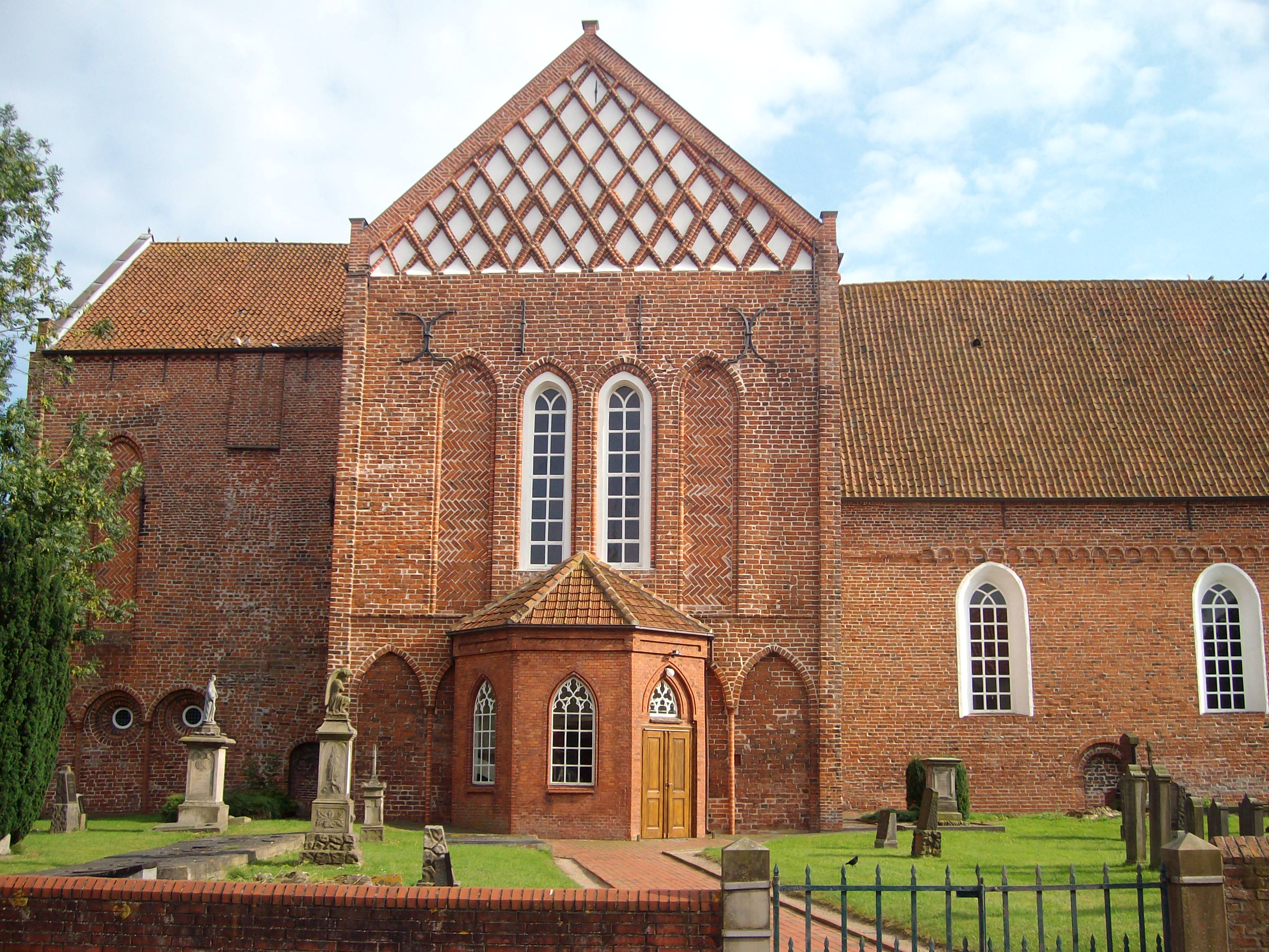 Historic church in Bunde, district of Leer, East Frisia, Germany